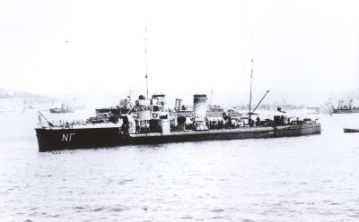 Destroyer Nea Genea in 1918.